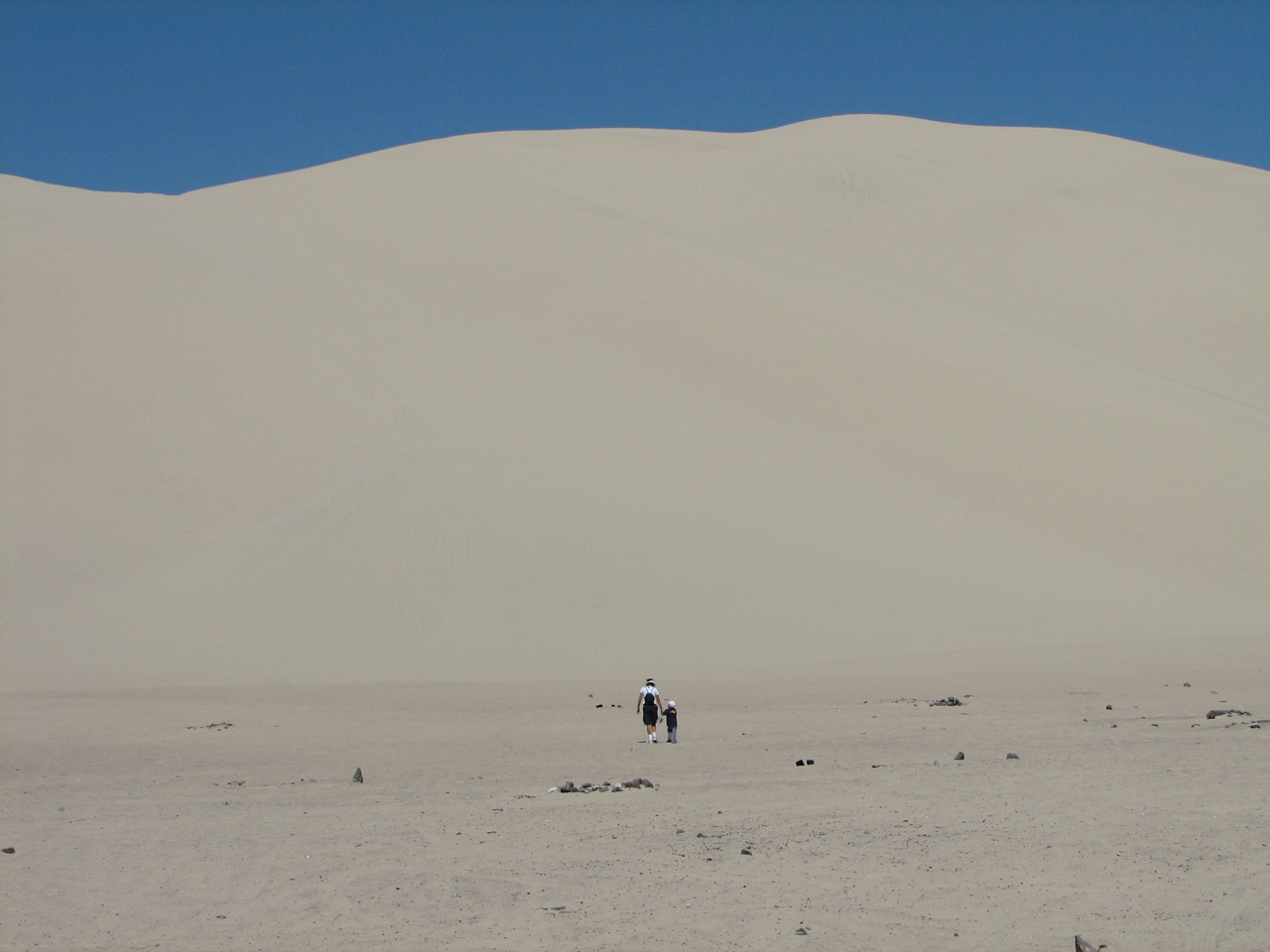 Sand Mountain, a very large sand dune 20 miles (32 km) east of Fallon, Nevada, and part of the Sand Mountain Recreation Area.